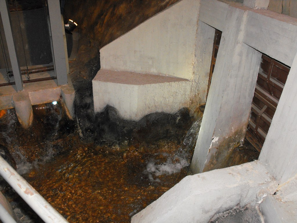 Settlements in Israel